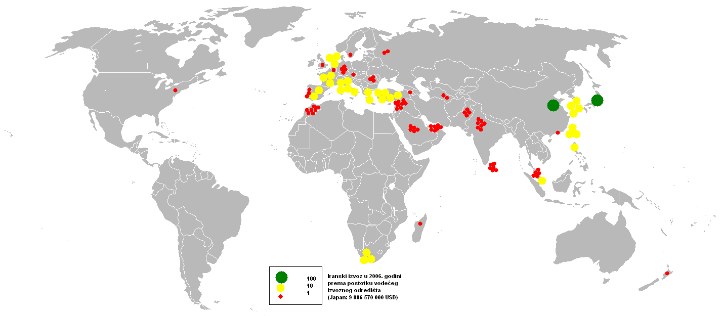 This bubble map shows the global distribution of Iranian exports in 2006 as a percentage of the top market (Japan - $9,886,570,000).